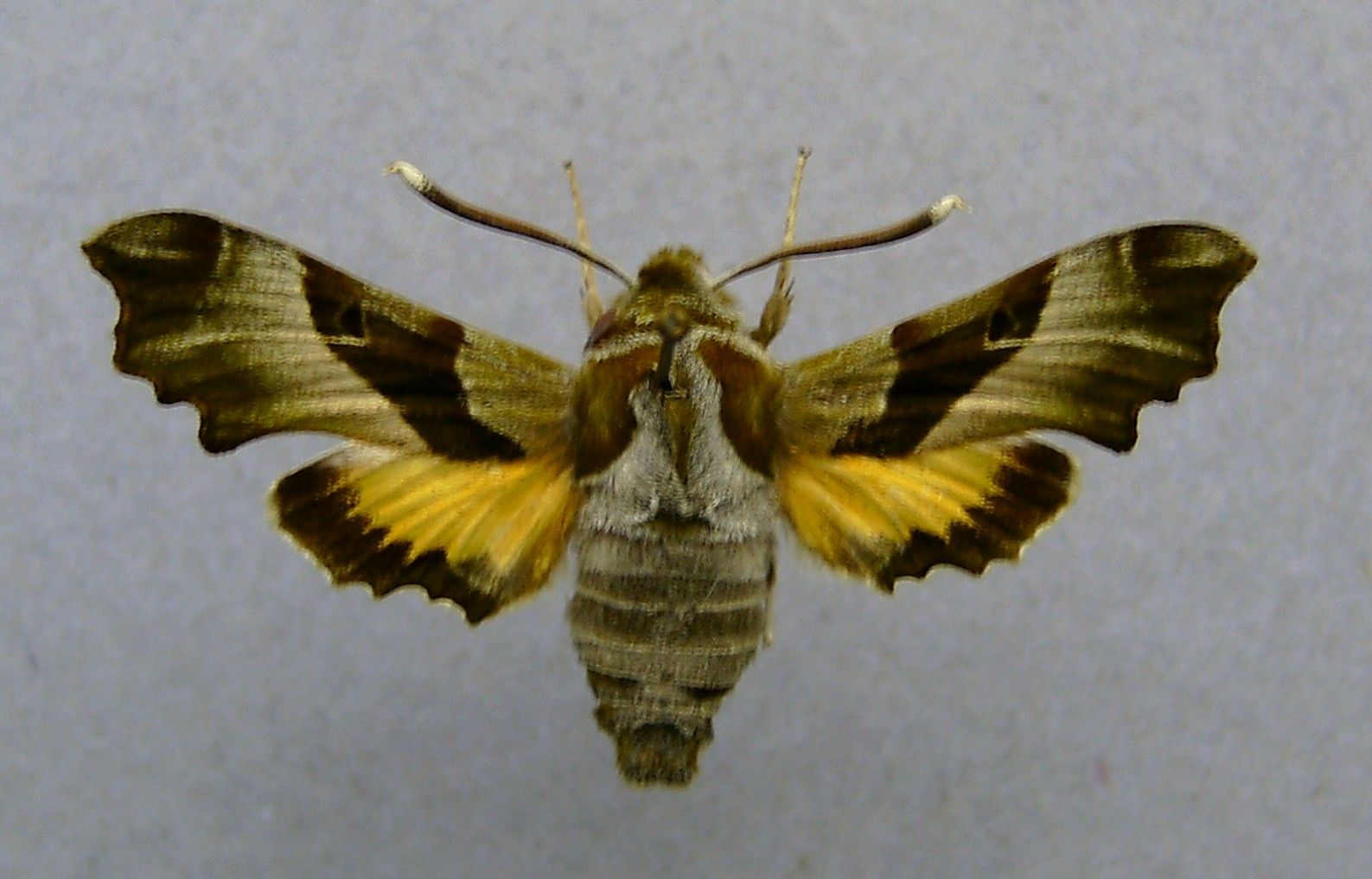 Proserpinus proserpina